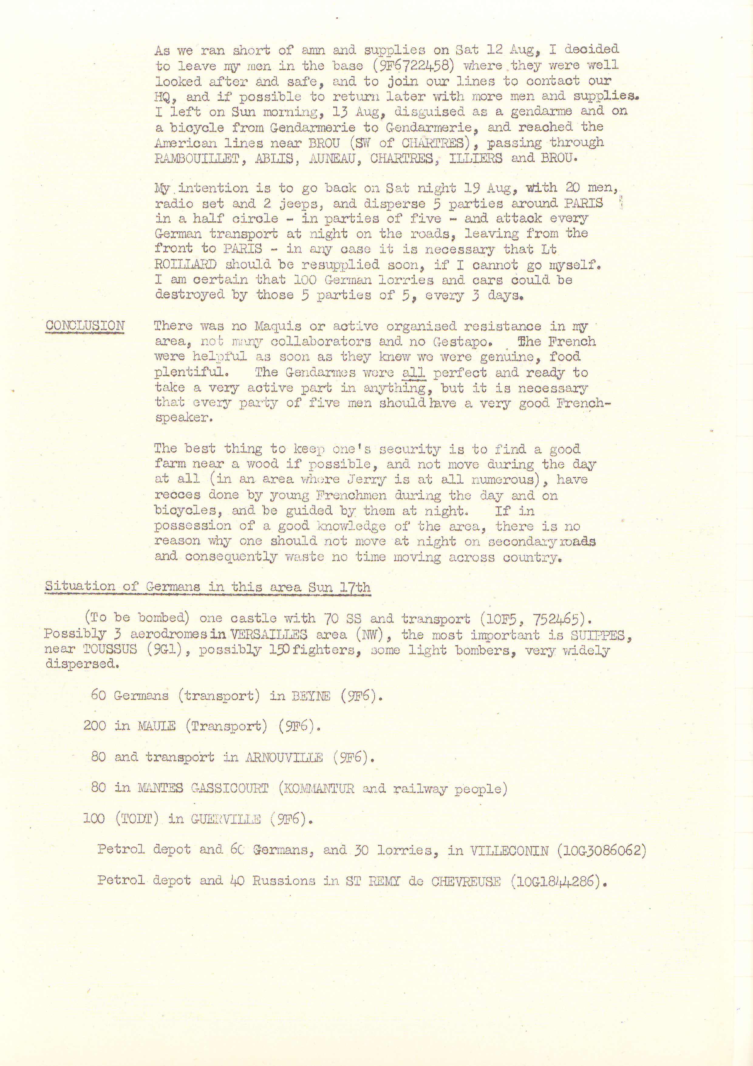 Op GAFF - Post-op report - Page 2